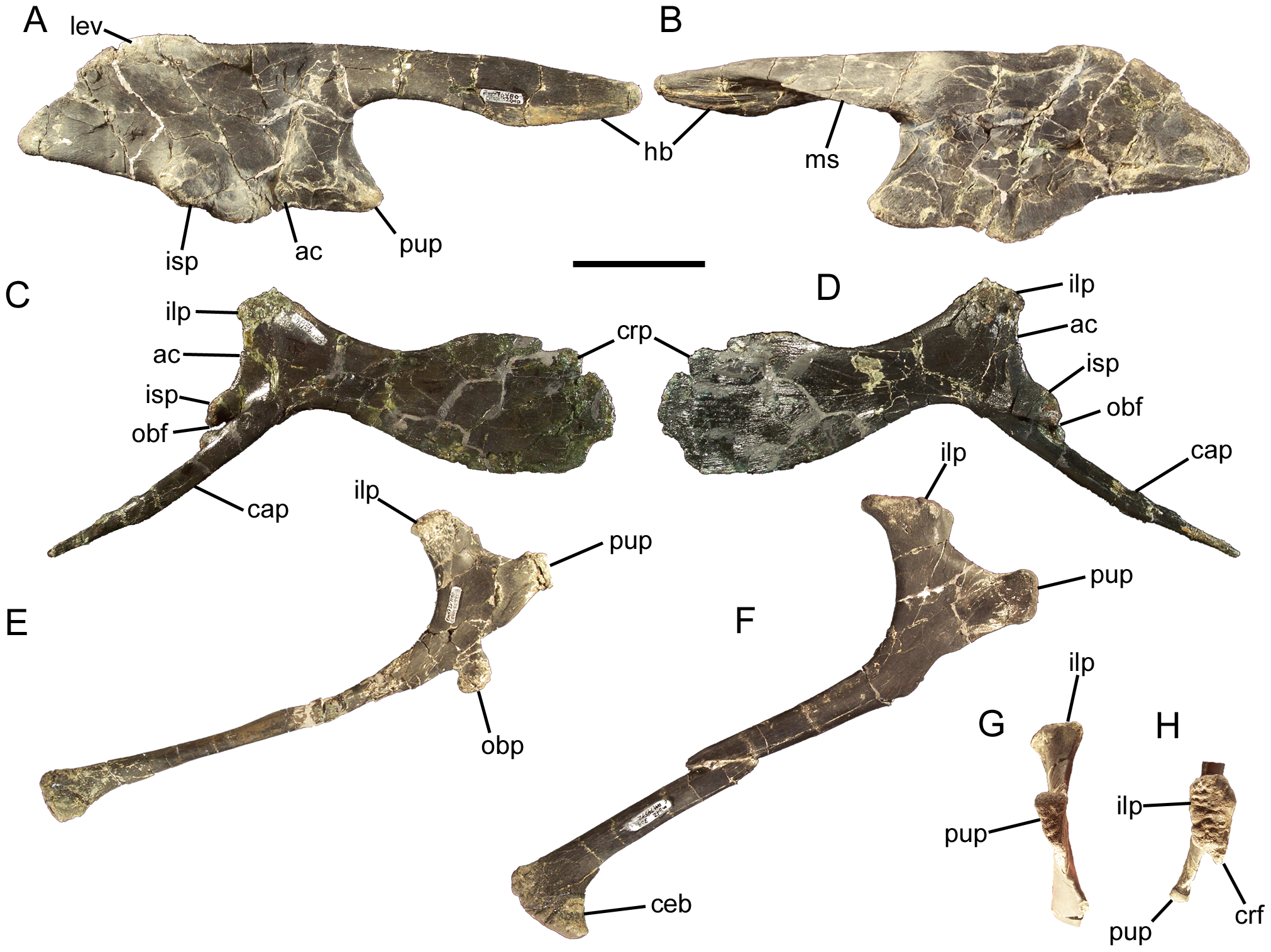 Pelvic girdle of Eolambia. Right ilium CEUM 52090 (WS8) in (A) lateral and (B) medial views. Right pubis CEUM 52152 (WS8) in (C) lateral and (D) medial views. Right ischium CEUM 52941 (Eo2) in (E) lateral view. Right ischium CEUM 74572 (Eo2) in (F) lateral, (G) cranial, and (H) proximal views. Abbreviations: ac, acetabulum; cap, caudal pubic process; ceb, cranially expanded boot; crf, cranial flange; crp, cranial pubic process; hb, horizontal boot; ilp, iliac peduncle; isp, ischial peduncle; lev, laterally everted rim; ms, medial shelf; obp, obturator process; obf, obturator foramen; pup, pubic peduncle. Scale bar equals 10 cm.